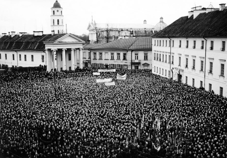 Demonstration of townspeople of Wilna after seizure of city by Polish Army.